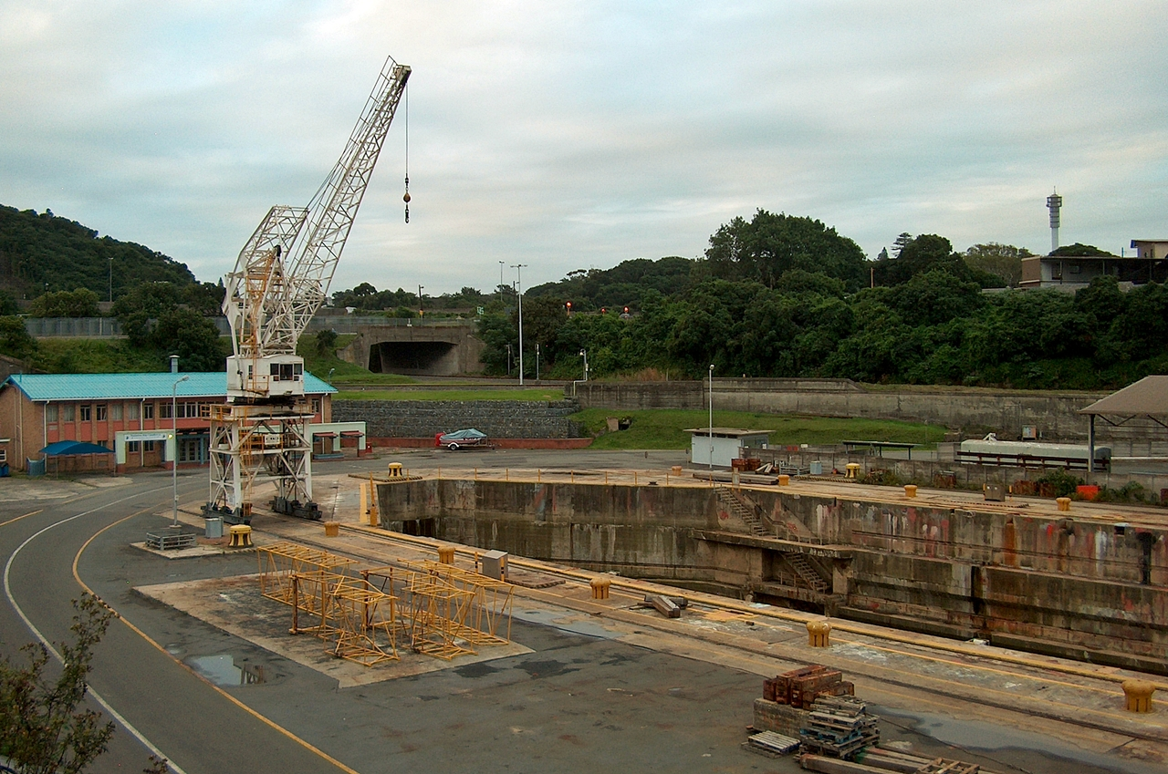 Princess Elizabeth Graving Dock in East London, South Africa. The official opening of the East London Graving Dock was performed on 3 March 1947 by HRH Princess Elizabeth, when she named the dock the Princess Elizabeth Graving Dock.